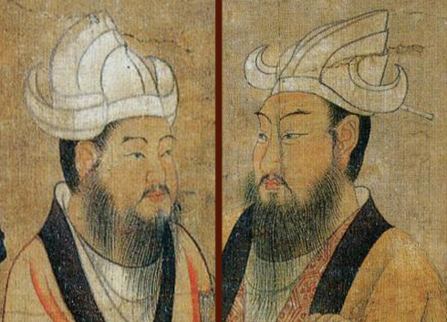 Emperor Fei of Chen (left) and Emperor Wen of Chen (right) wearing white Qia (a kind of men's hat invented by Cao Cao). 中文（中国大陆）: 头戴白帢（㡊）的陈废帝（图左）与陈文帝（图右）。帢为曹操所发明。